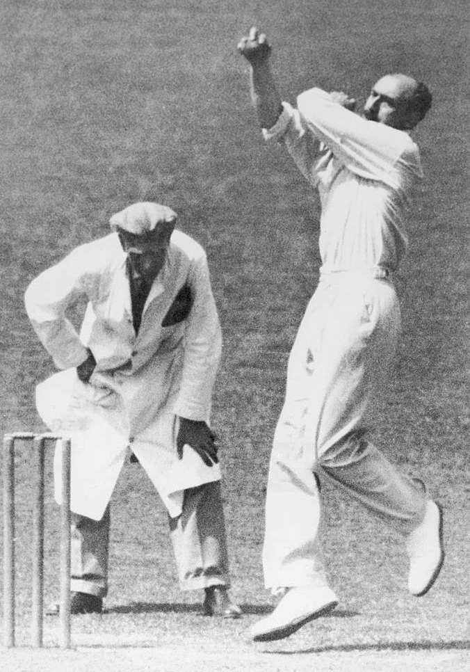 Surrey cricketer Percy George Herbert Fender (1892 - 1985) in action, June 1935.